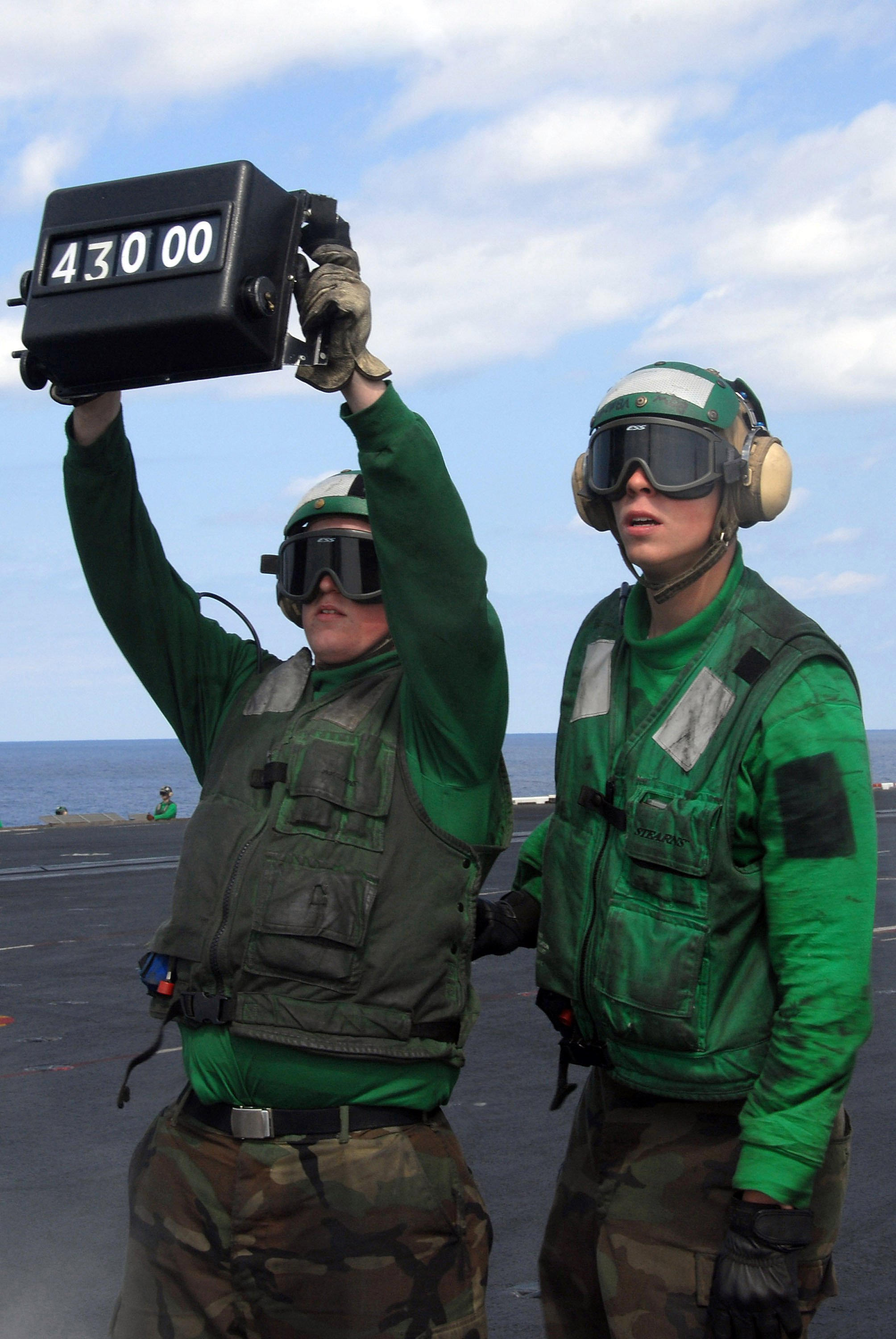 PACIFIC OCEAN. Aviation Boatswain's Mate (Equipment) Airman Ryan Martin, right, shows Aviation Boatswain's Mate (Equipment) Airman Nicoles Schulmeister how to properly signal with a weight board during flight operations aboard the aircraft carrier USS Nimitz (CVN 68). Nimitz is assigned to the U.S. 7th Fleet, operating in the western Pacific and Indian oceans. The 7th Fleet is the largest of the forward-deployed fleets with approximately 50 ships, 120 aircraft and 20,000 Sailors and Marines.